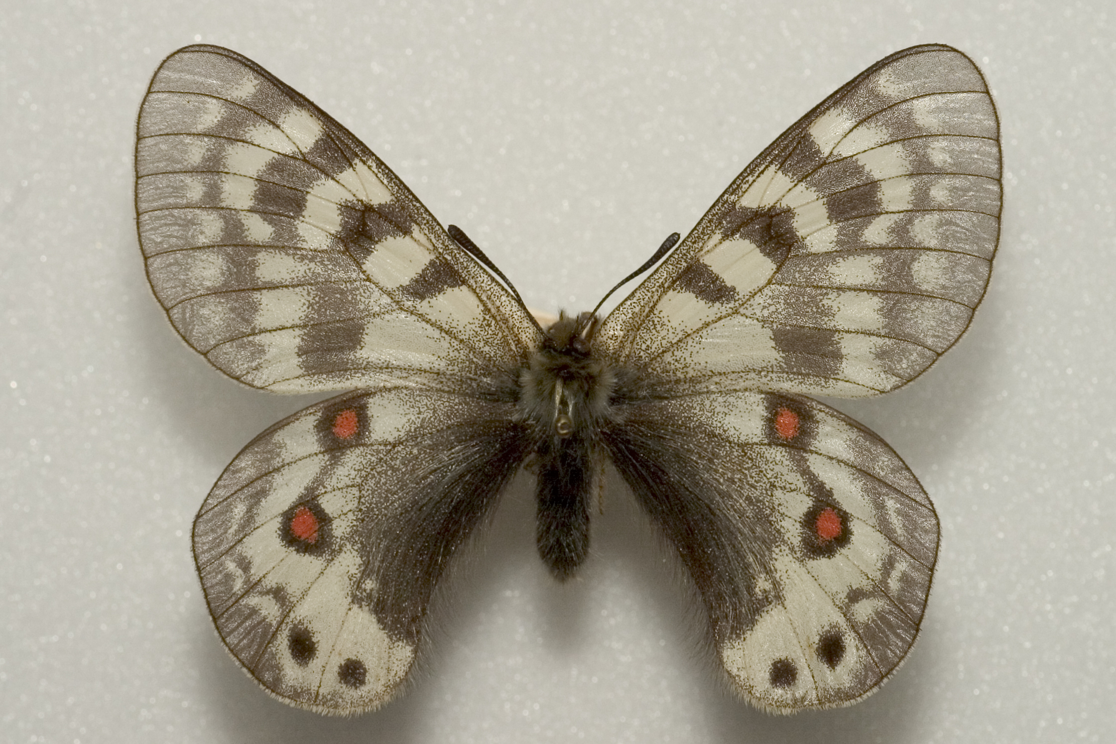 Parnassius delphius Eversmann, 1843 subspecies infernalis Elwes, 1886 Male: 8.6.1887 Marapmr, Alai mont.,Ex Elwes, ex Hill Museum Deterined by Robert Nash and Curt Eisner Own photograph. Photography by Brian McKenna.